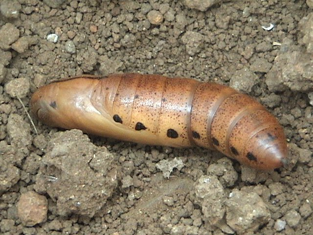 Oleander Hawkmoth (Daphis nerii) pupa